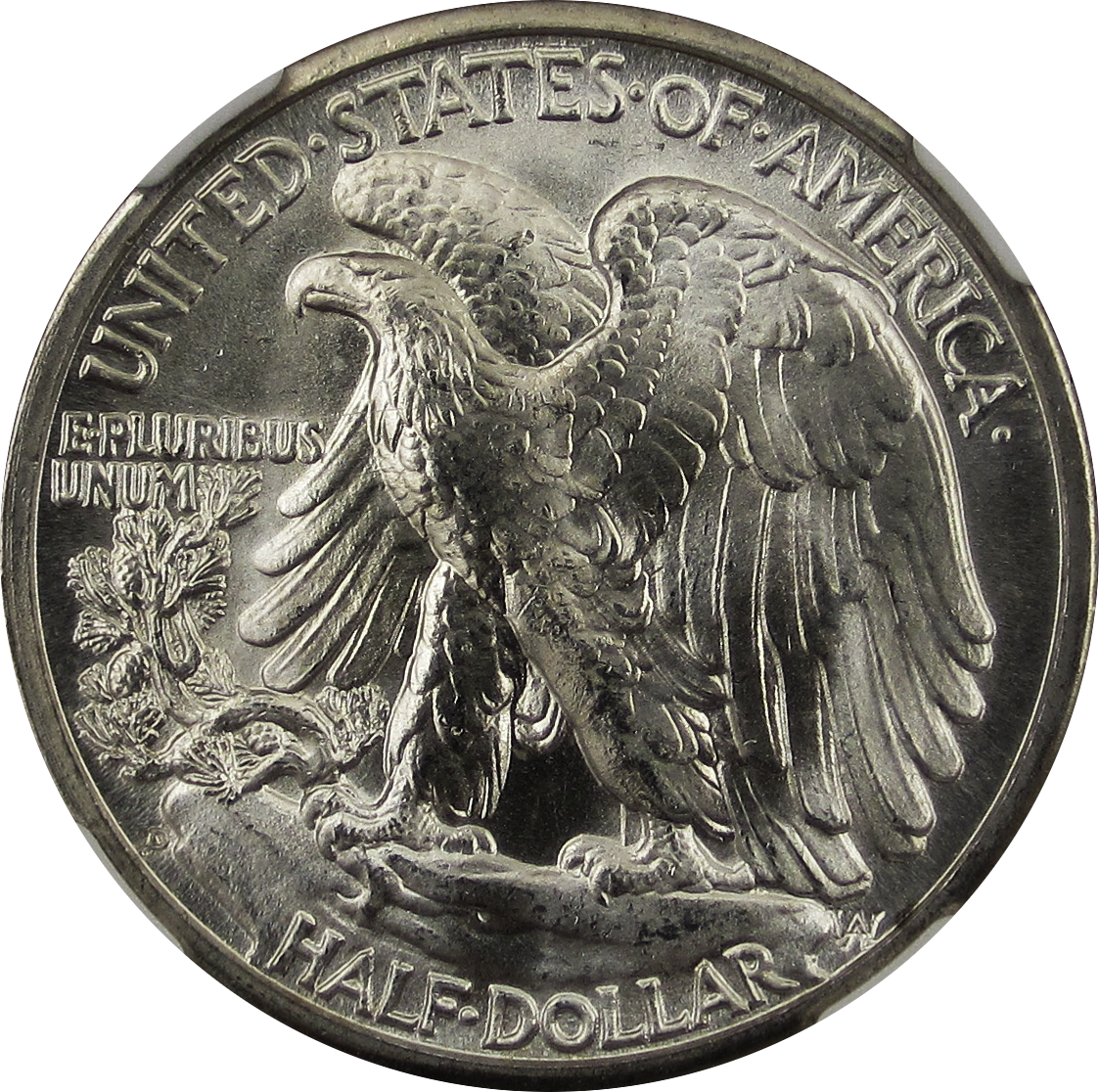 The reverse of the Walking Liberty half dollar. This particular coin is graded MS66+ by the Numismatic Guaranty Corporation (NGC) and is housed in an EdgeView holder (one can see the minimally viewable white prongs holding the edge of the coin).